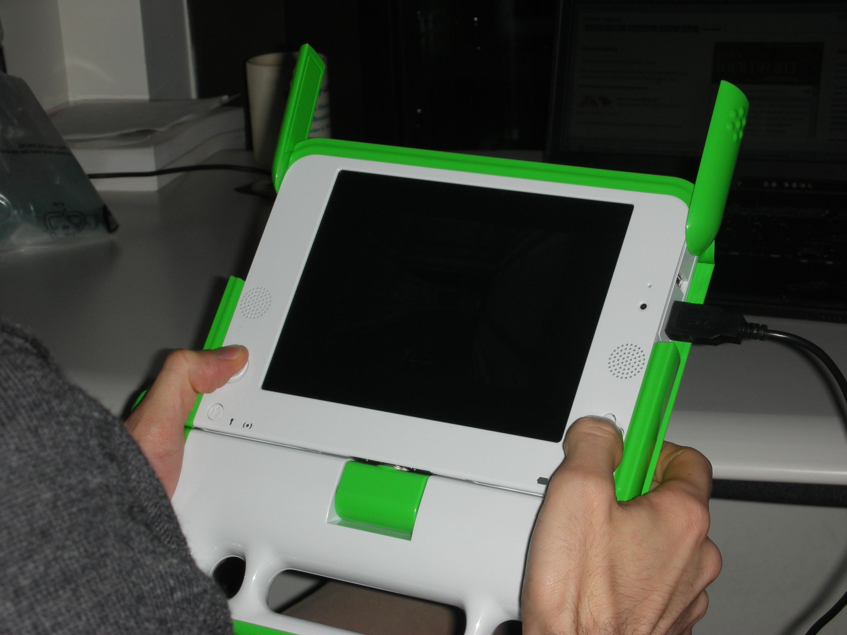 An OLPC machine in e-book mode.